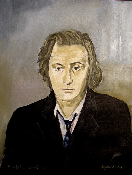 Portrait on Canvas Title: Portrait of Russian Composer Alfred Schnittke. Collection The Royal College of Music. London